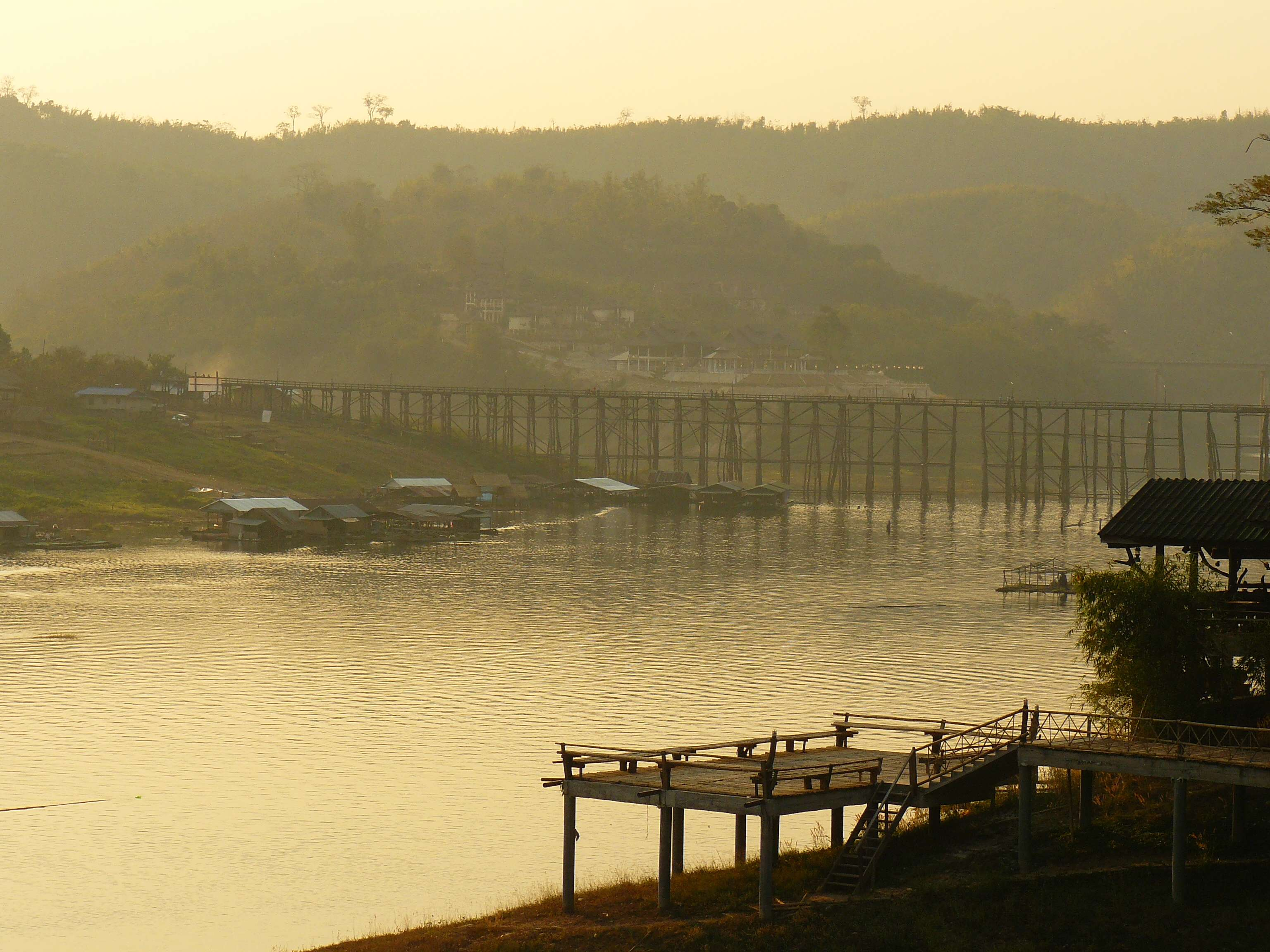 Mon Bridge over the Khao Laem Lake in Sangkhlaburi (Kanchanaburi Province)